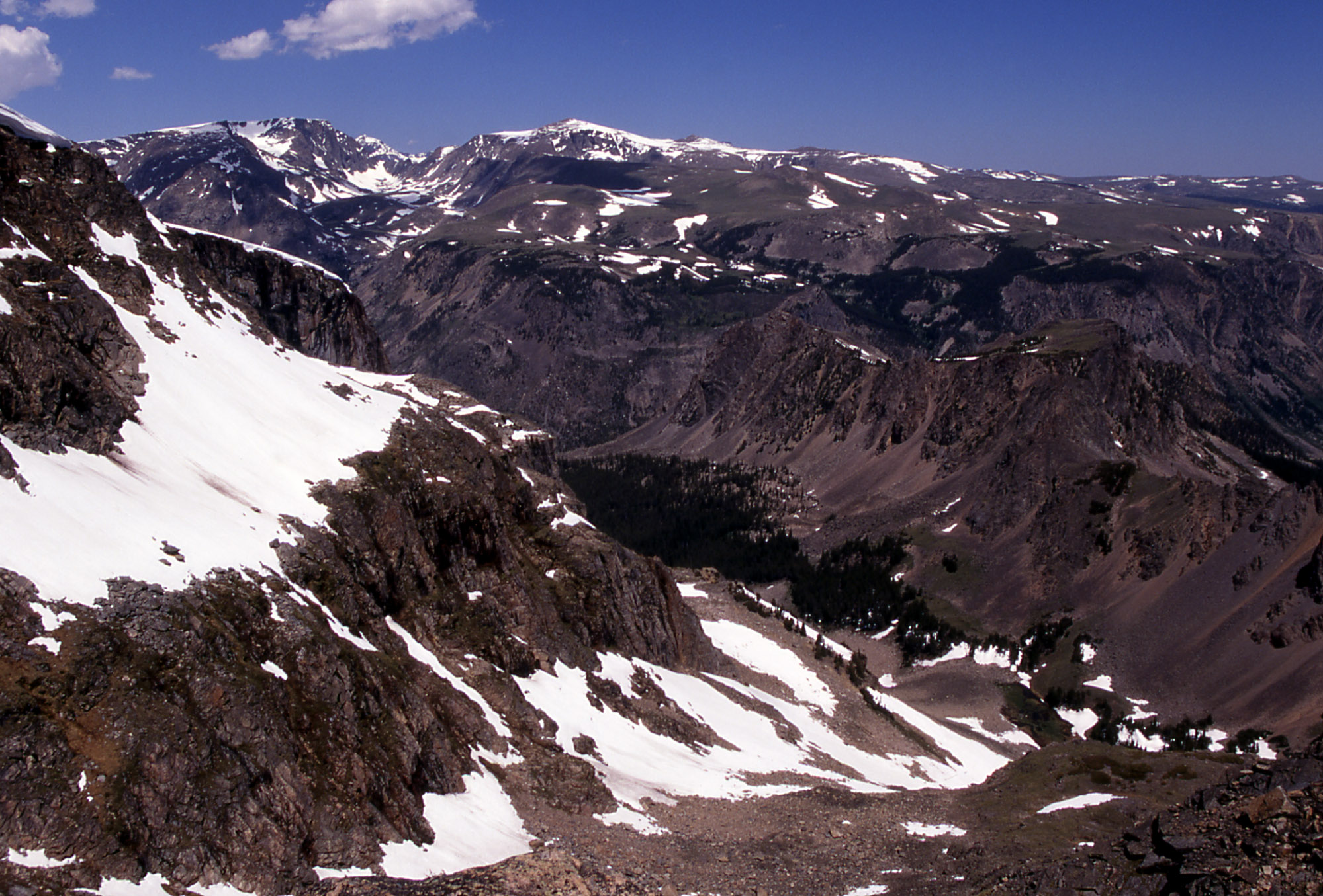 Beartooth Mountains — in southern Montana. A sub-mountain range of the Rocky Mountains System.